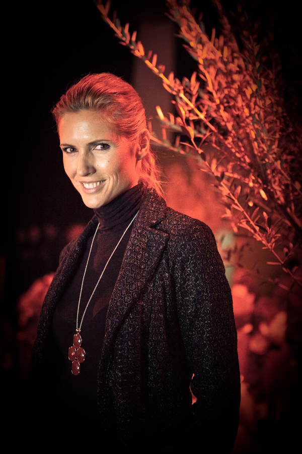 Judit Mascó, at the Welcome Party - The Brandery Winter Edition 2010